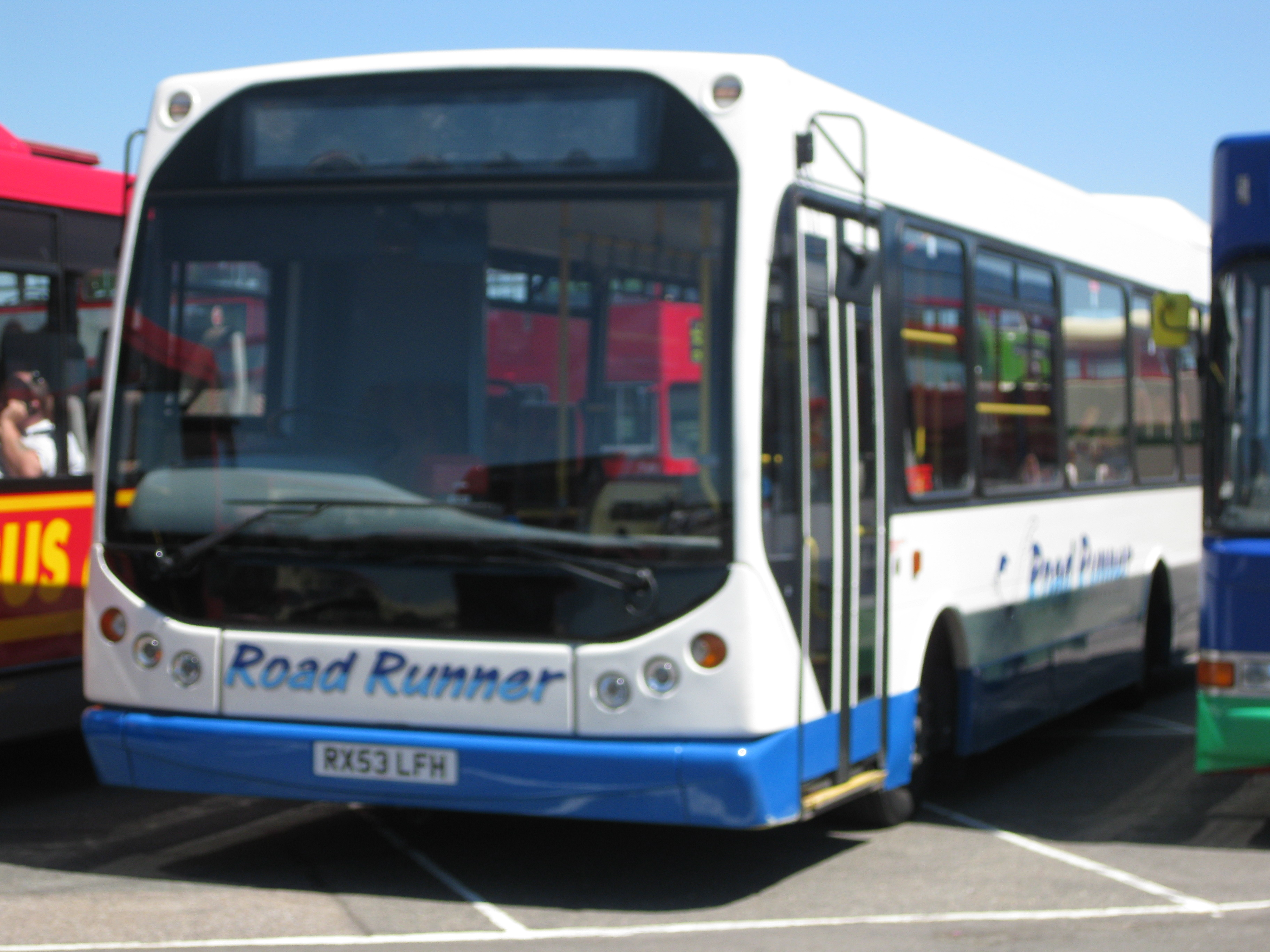 An East Lancs Myllennium with Roadrunner at the North Weald bus rally in 2010. This bus is ex-Countywide Travel of Hampshire.